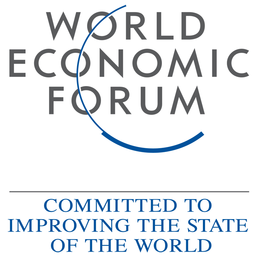 Official logo of the World Economic Forum